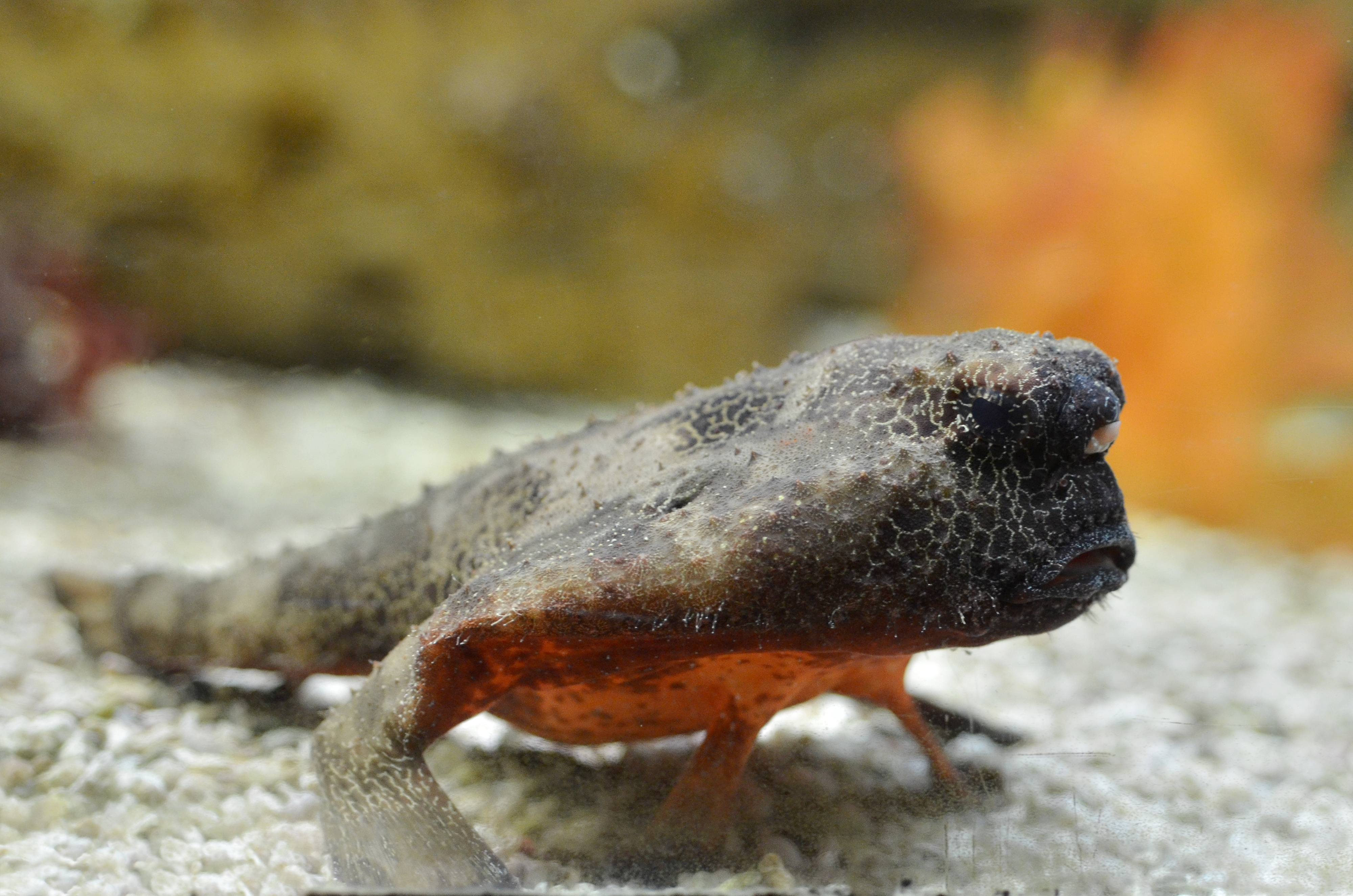 Ogcocephalus nasutus (in captivity) Grand Aquarium de Saint-Mallo, France Shorth nose bat fish Poisson chauve-souris